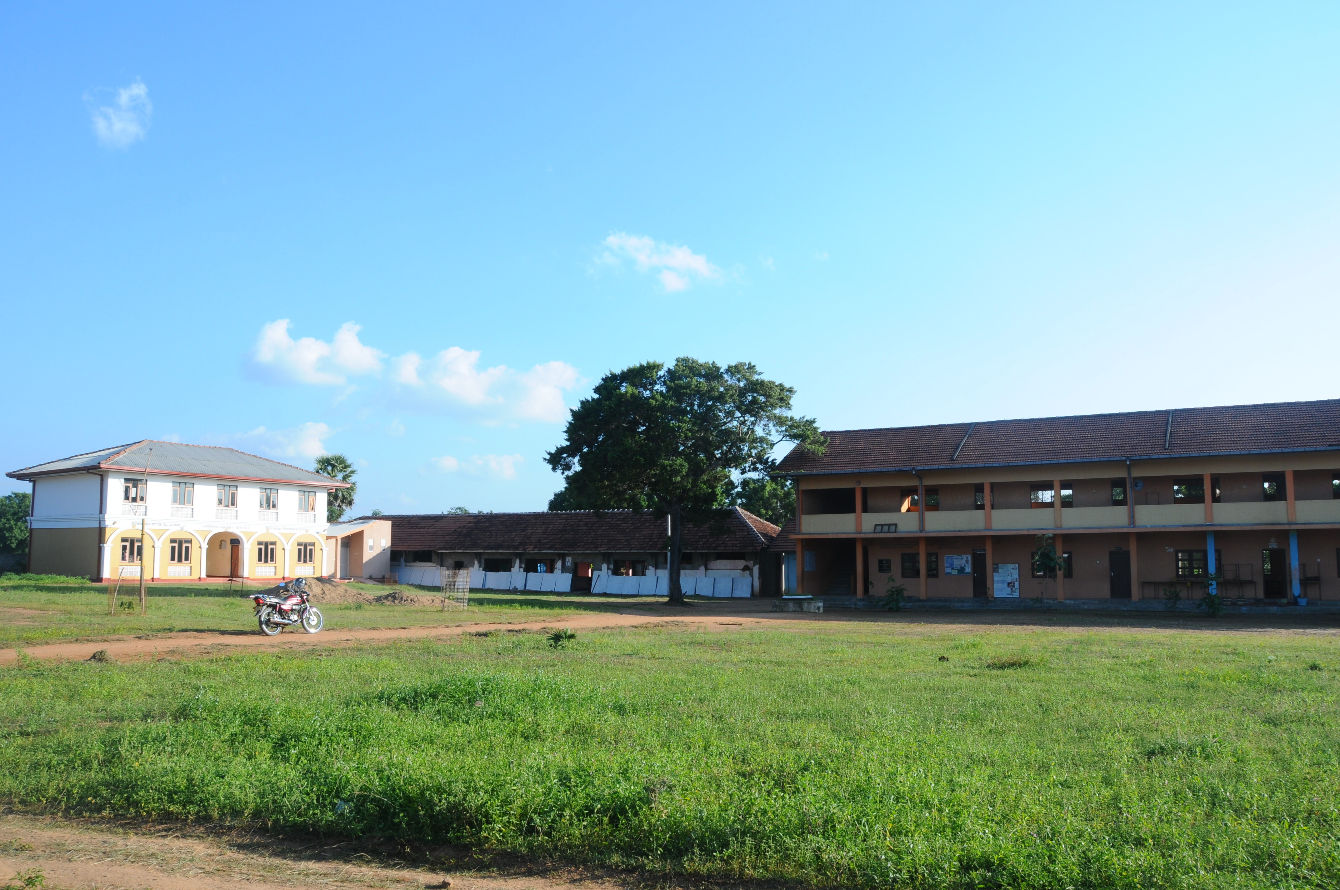 Yogapuram Maha Vidyalayam building